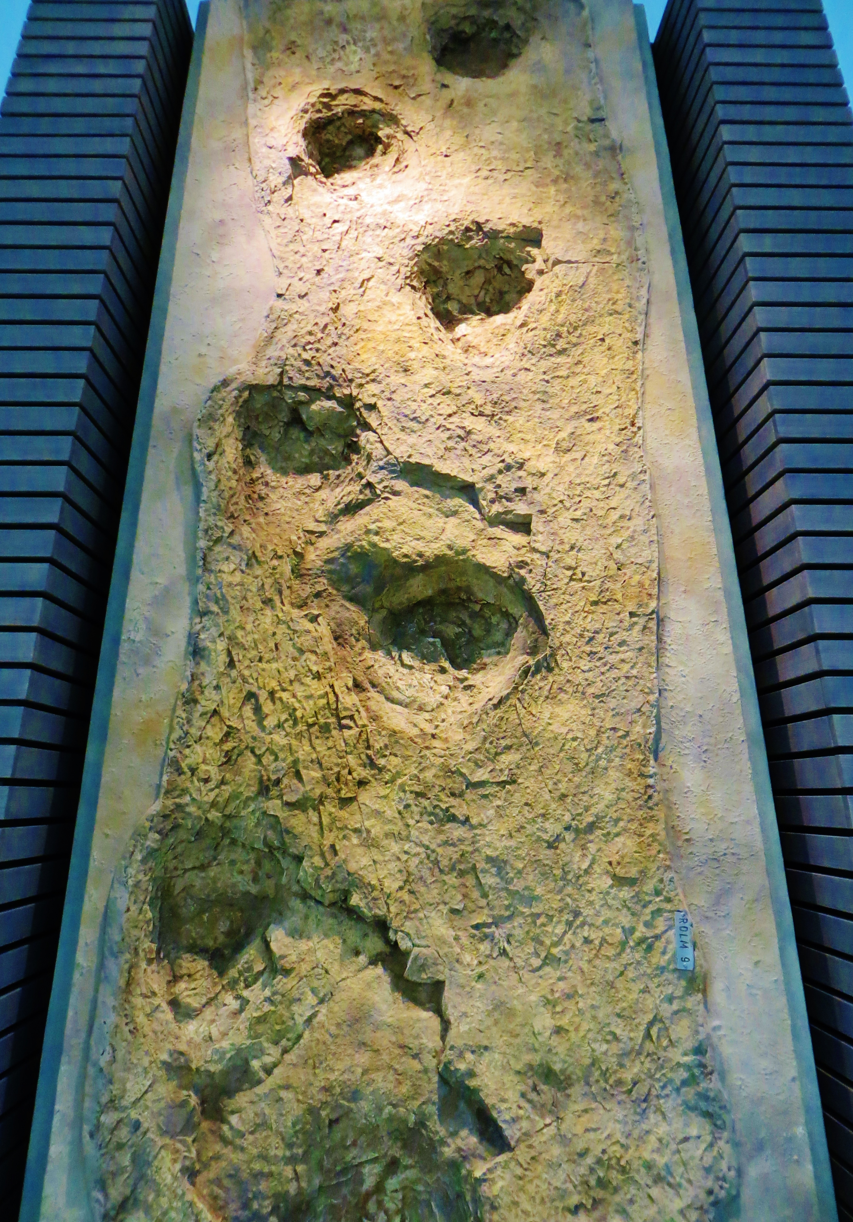 Fossil imprints of dinosaurs. Took the picture at Museo di Rovereto